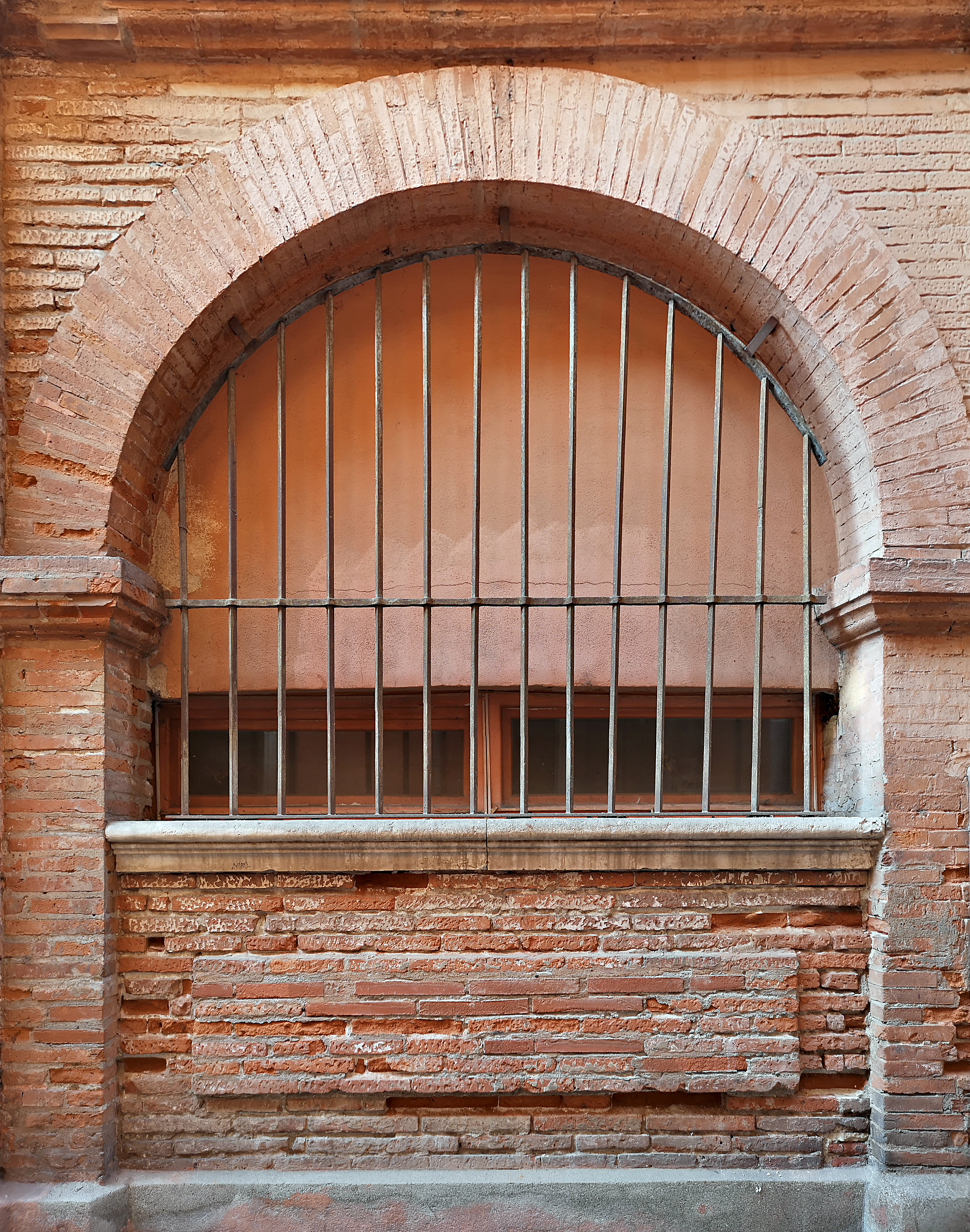 Descente de la Halle-aux-Poissons (Toulouse) - No. 15 one of the vestigial arches of the fish market (1759).